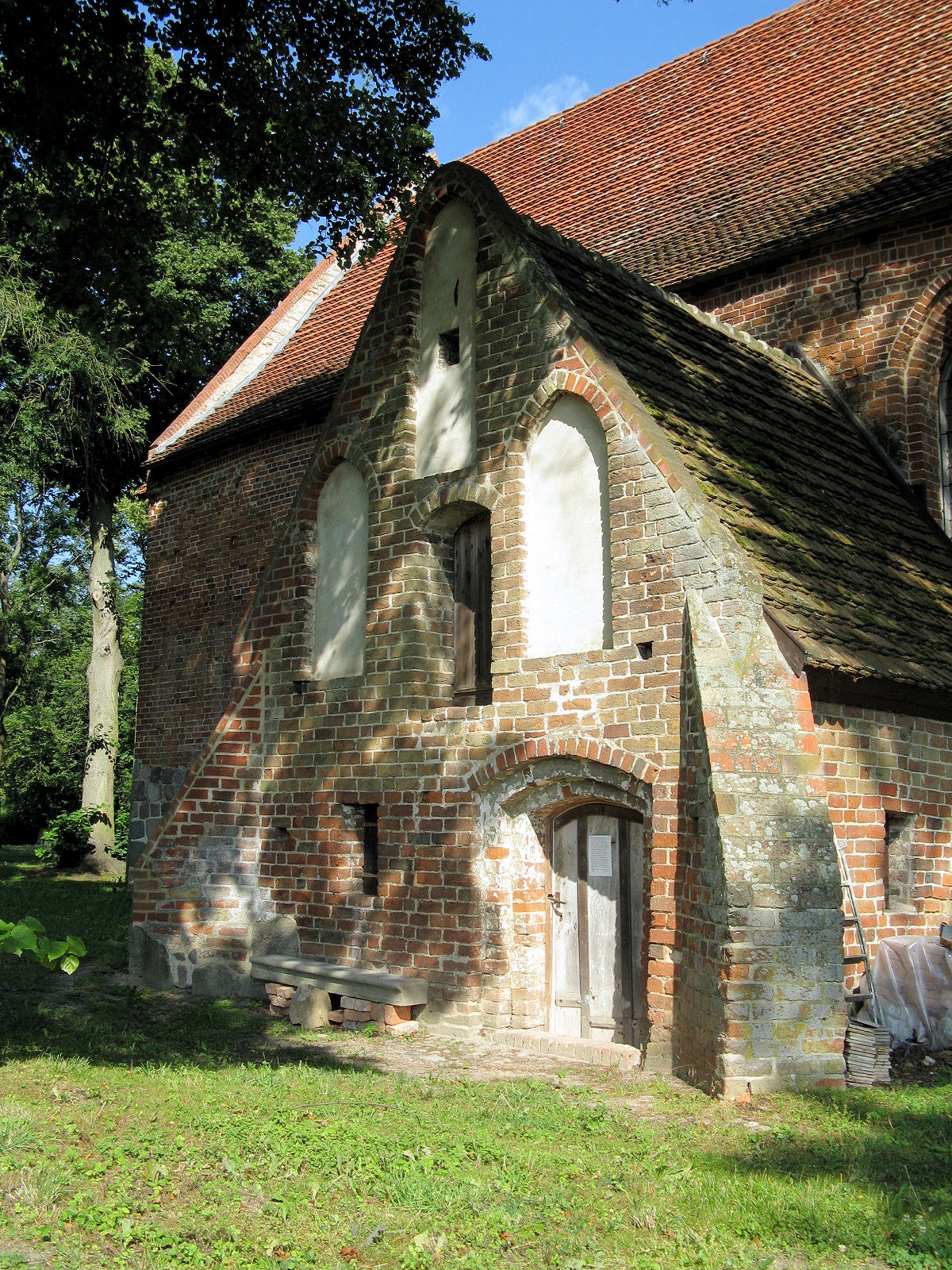 Detail of church in Boitin, disctrict Güstrow, Mecklenburg-Vorpommern, Germany